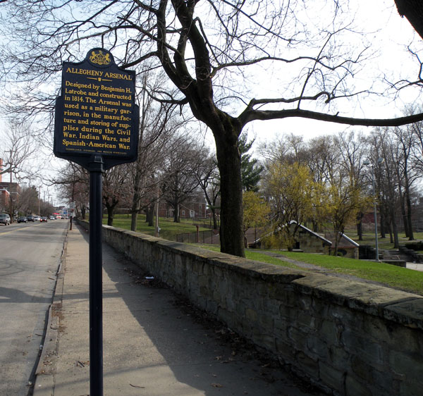 Picture of the historical marker near the site of the former Allegheny Arsenal located on 40th Street near Arsenal Pl. in the Central Lawrenceville neighborhood of Pittsburgh, Pennsylvania, on March 21, 2010. The historical marker says, "Allegheny Arsenal - Designed by Benjamin H. Latrobe and constructed in 1814. The Arsenal was used as a military garrison in the manufacture and storing of supplies during the Civil War, Indian Wars, and Spanish-American War. Pennsylvania Historical and Museum Commission." The marker does not mention the tragic munitions explosion that took place at the Arsenal during the Civil War. Here's what a newspaper from that time said, "It was during the second year of the Civil War and during the second engagement of the battle of Antietam that Sept. 17, 1862, the War Department sent a hurry order to the superintendent of the Arsenal for a supply of ammunition. Col. Simonton, who was commandant at the arsenal, had just completed a new ballast driveway leading from the Butler St. entrance to the magazine house. A team hauling a wagonload of powder was the first vehicle to use the road. As it rumbled over the new road it is thought that fire struck by the horses' shoes ignited some scrappings of powder that littered the driveway. Then followed one of the worst catastrophes in the history of the city. The driver of the wagon and a small boy who accompanied him were blown to atoms. The magazine house in which were employed 83 persons, mostly girls, was demolished and some of the bodies were never found. The force of the explosion wrecked houses, tore down ceilings and shattered windows in dwellings for miles around. The detonation was heard from the forks of the road to the Sharpsburg bridge and many persons thought they were in the midst of an earthquake. For more than a week the entire city was plunged in mourning."